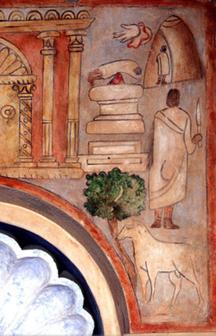 Depiction of the tale of Isaac's sacrifice on the Walls of the Dura-Europos synagogue